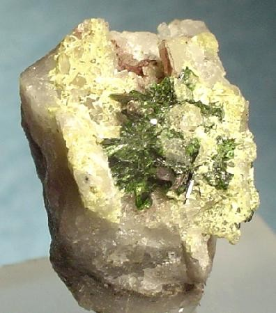 Lindgrenite Locality: Chuquicamata Mine, Chuquicamata District, Calama, El Loa Province, Antofagasta Region, Chile (Locality at ) Size: 1.7 x 1.7 x 1.4 cm. Lindgrenite is a copper molybdate and this fine thumbnail is from the Type Locality, the Chuquicamata Mine of Chile. Lustrous and gemmy, forest-green lindgrenite blades richly fill a vug in quartz matrix, that is lined with an unknown, complimentary yellow mineral. Ex. Carl Davis Collection.